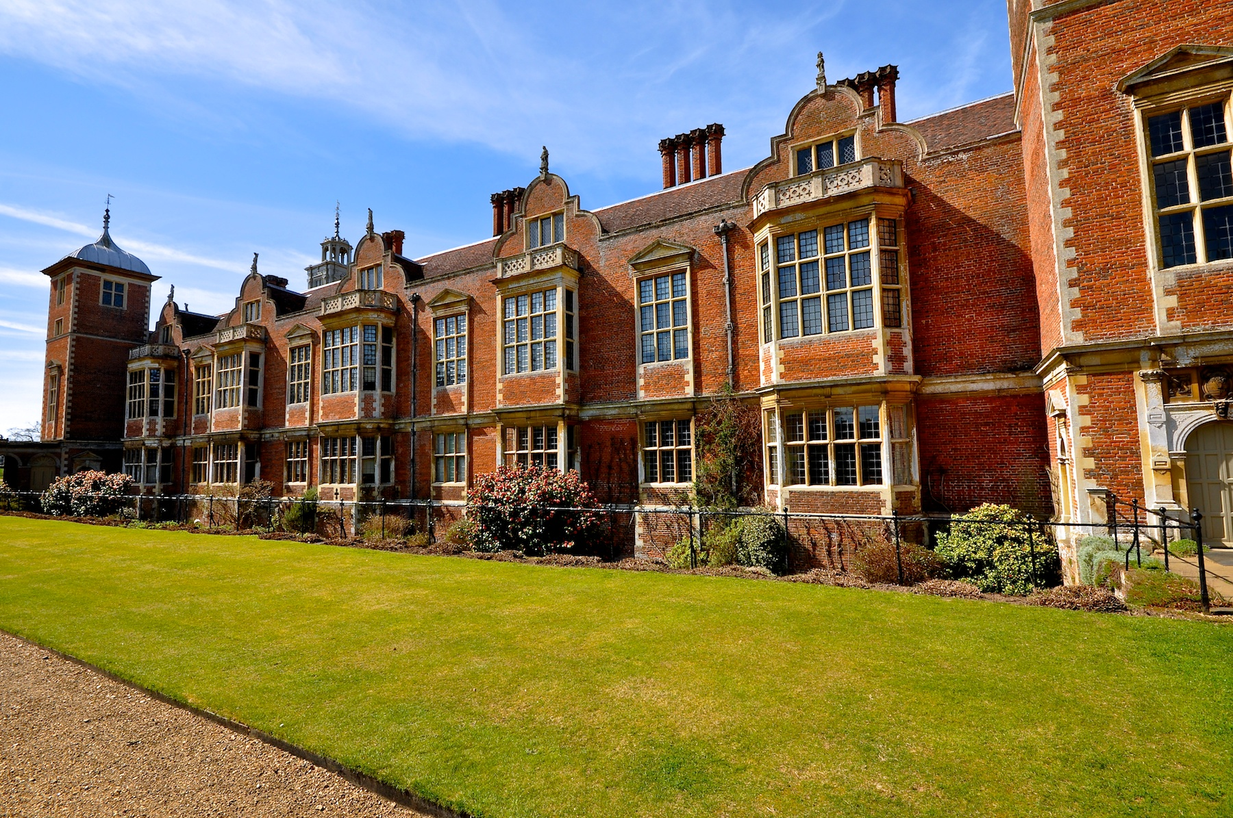 The House